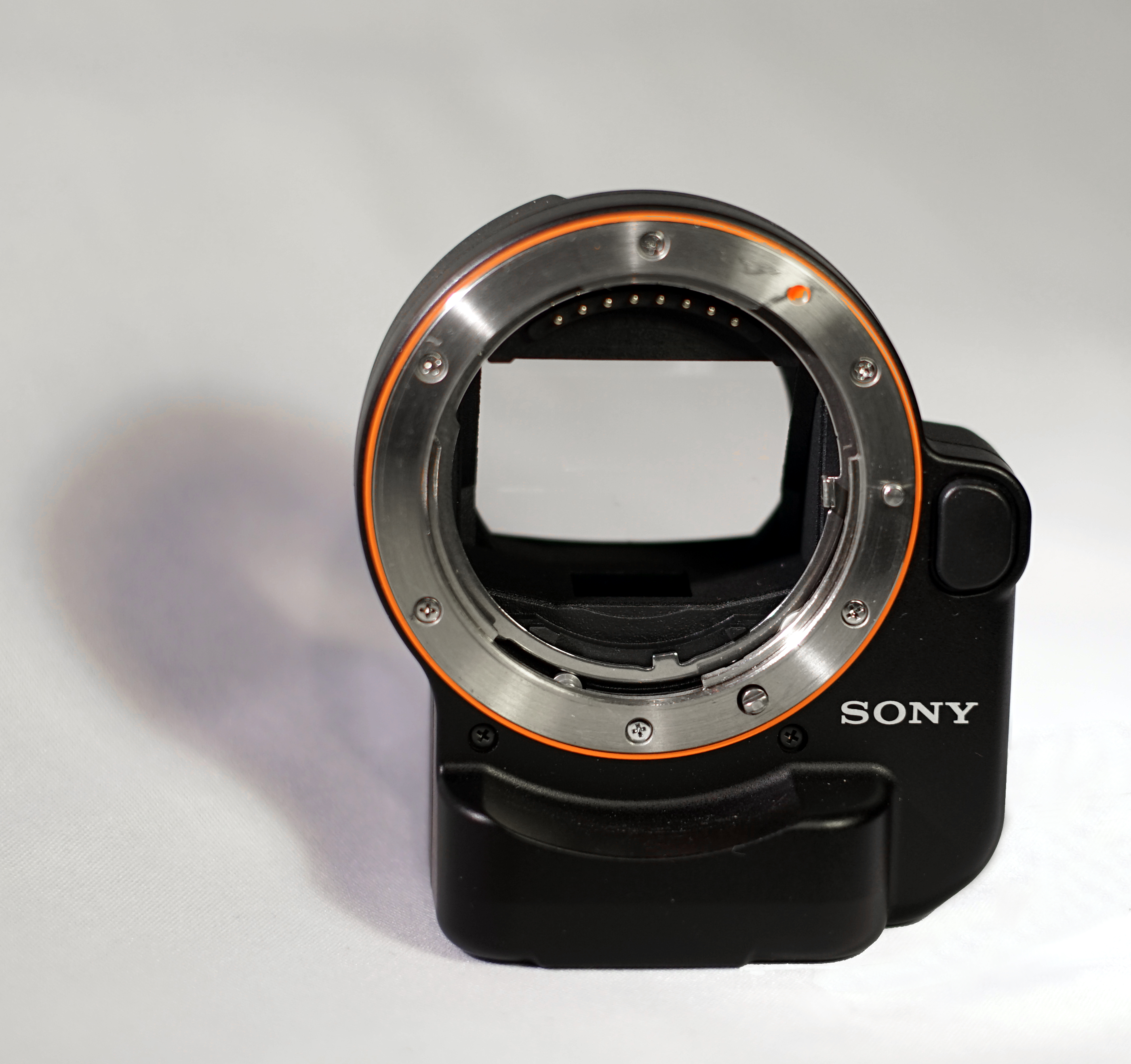 Sony lens adapter LA-EA4 to attach Minolta-Sony A-mount lenses to E-mount cameras, front side